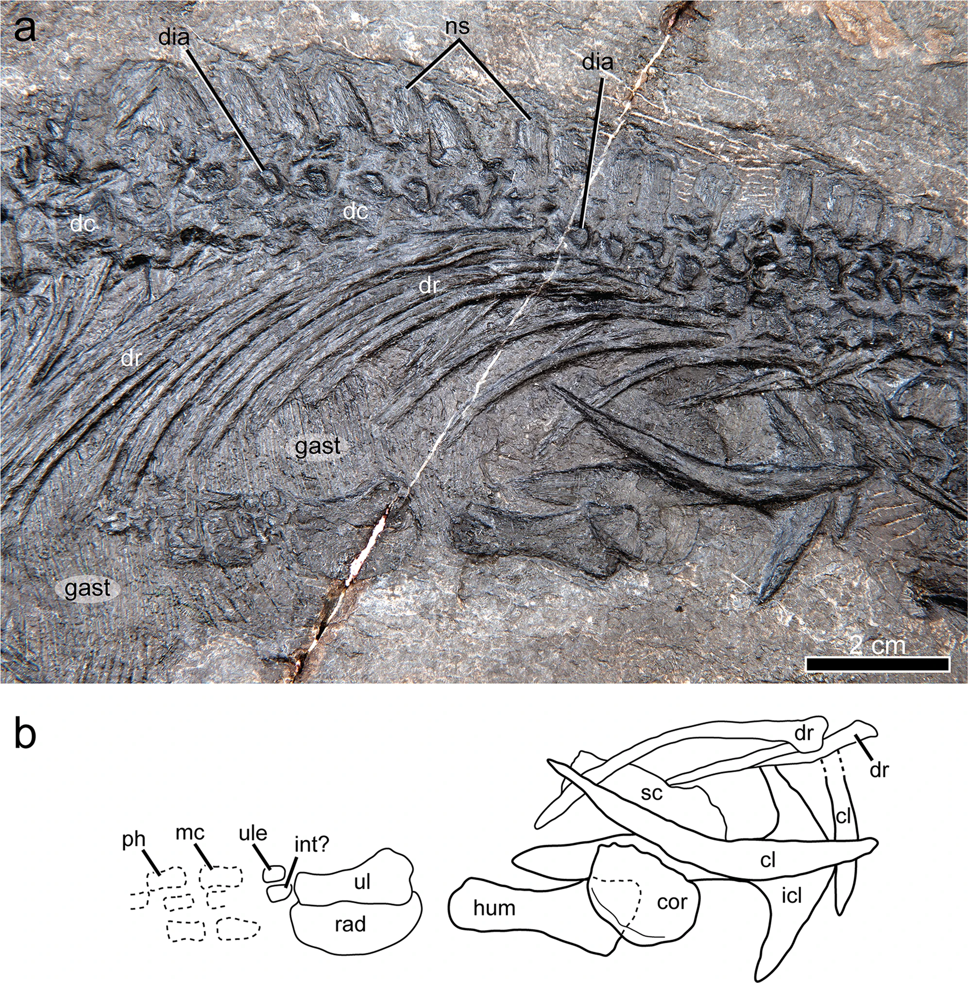 Dorsal region and pectoral girdle of Gunakadeit joseeae. (a) Photograph. (b) Interpretation of the holotype specimen UAMES 23258 in right lateral view. Abbreviations: cl, clavicle; cor, coracoid; dc, dorsal centrum; dia, diapophysis; dr, dorsal rib; gast, gastralia; hum, humerus; int, intermedium; icl, interclavicle; mc, metacarpal; ph, phalanx; ns, neural spine; rad, radius; sc, scapula; ul, ulna; ule, ulnare.